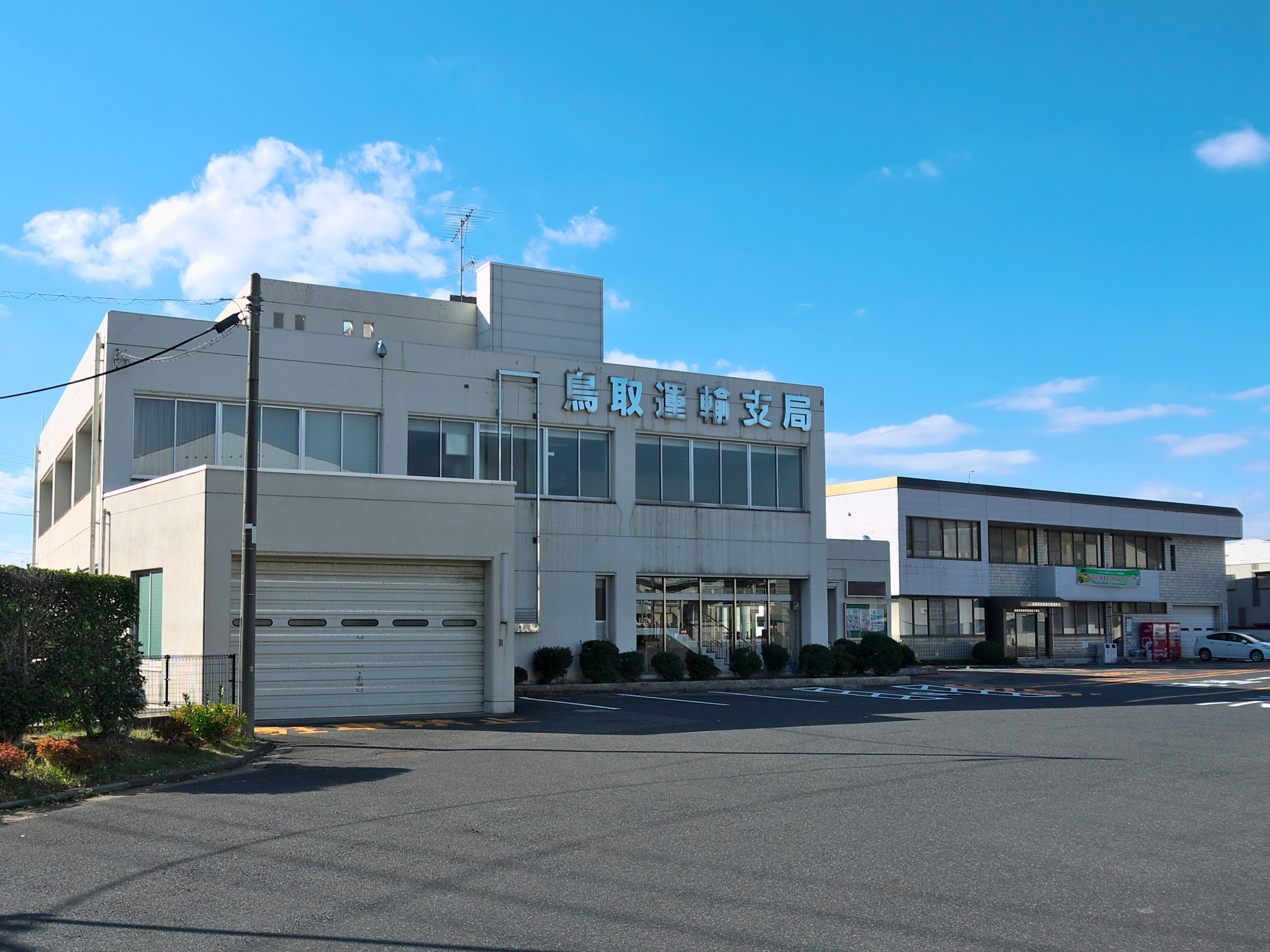 Chugoku District Transport Bureau Tottori Transport Branch Office in Tottori, Tottori prefecture